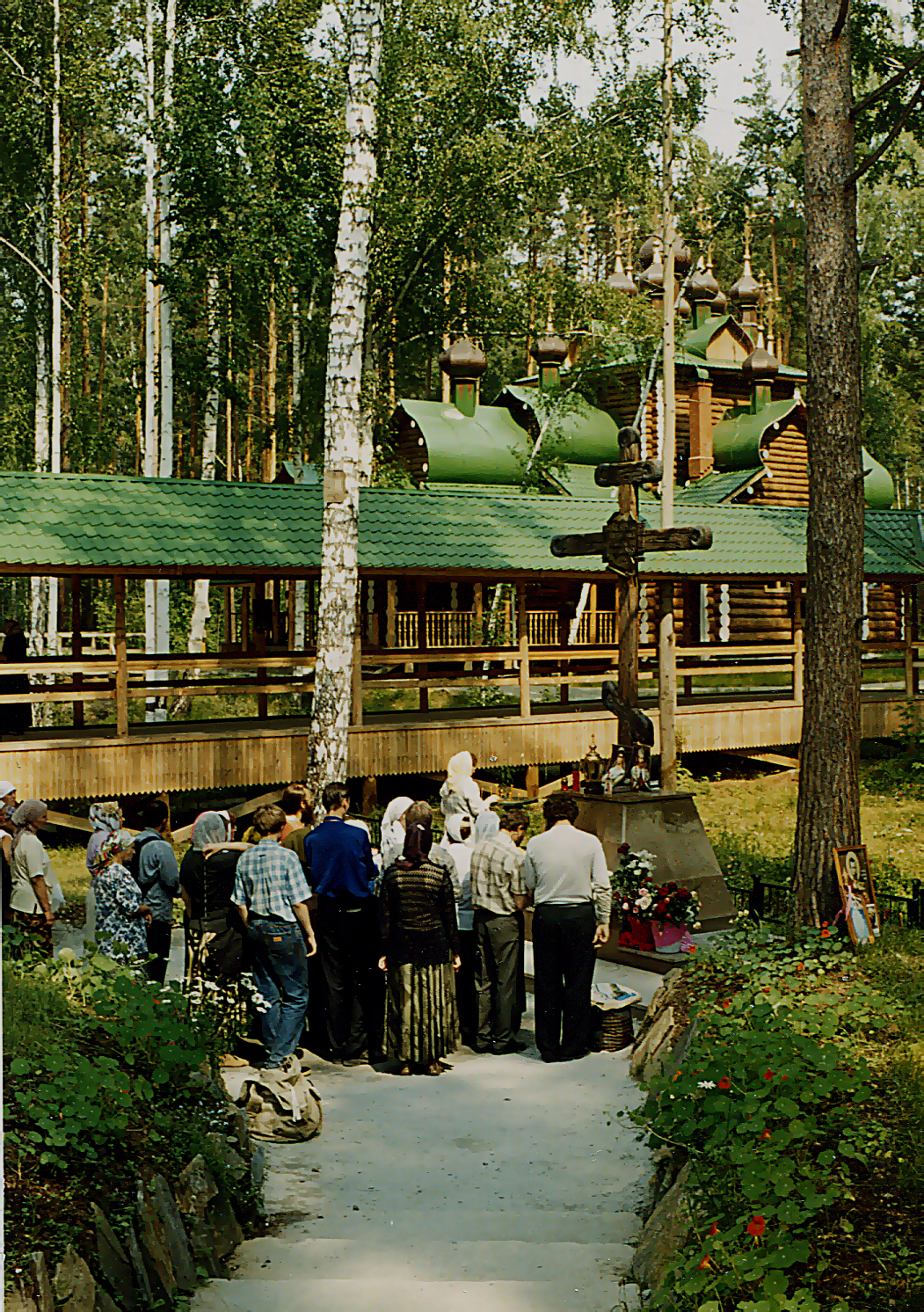 Ganina Jama.The first place , where the Romanows were buried.